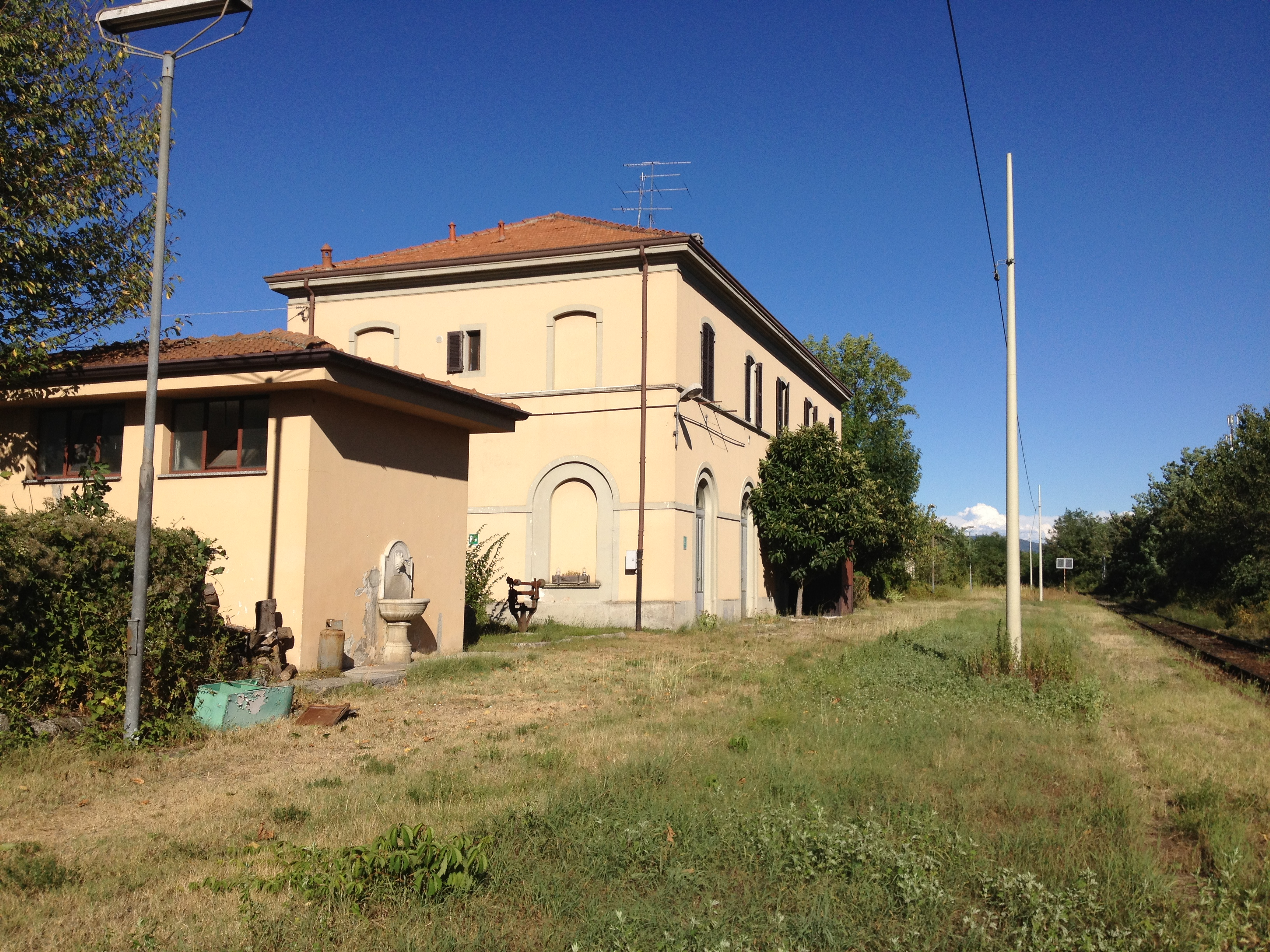 The Anzano station, side rails.